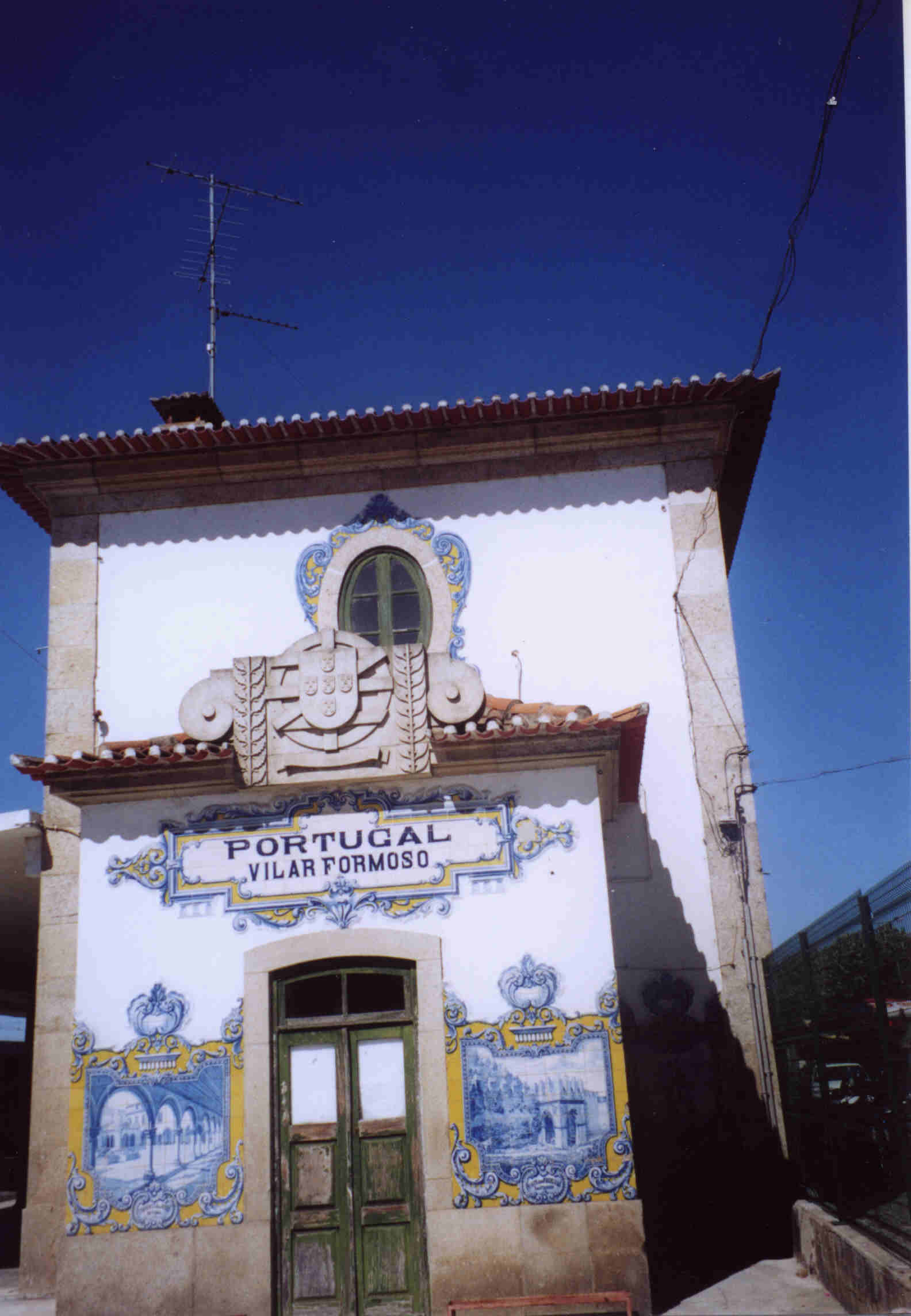 Train Station of Vilar Formoso